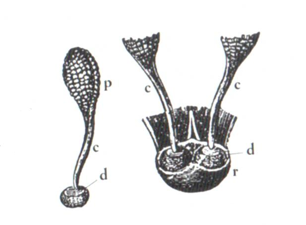 Figure 1 from the 1877 edition of Charles Darwin's Fertilisation of Orchids. Scanned from a copy of the work at the University of Massachusetts Amherst.